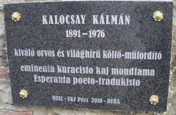 Plaque of Kálmán Kalocsay in Pécs, Hungary